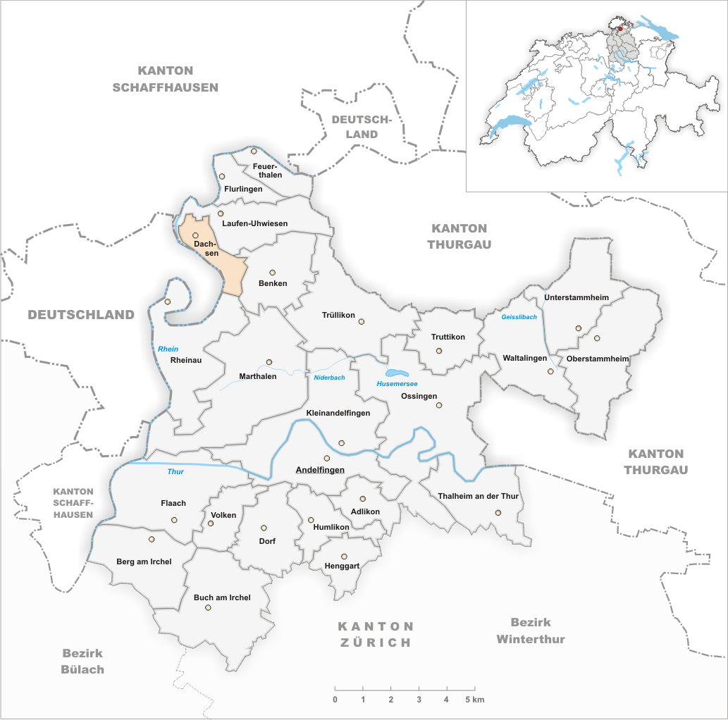 Municipality Dachsen